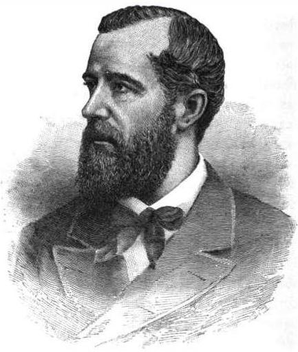 George Eustis, Jr., US Representative from Louisiana